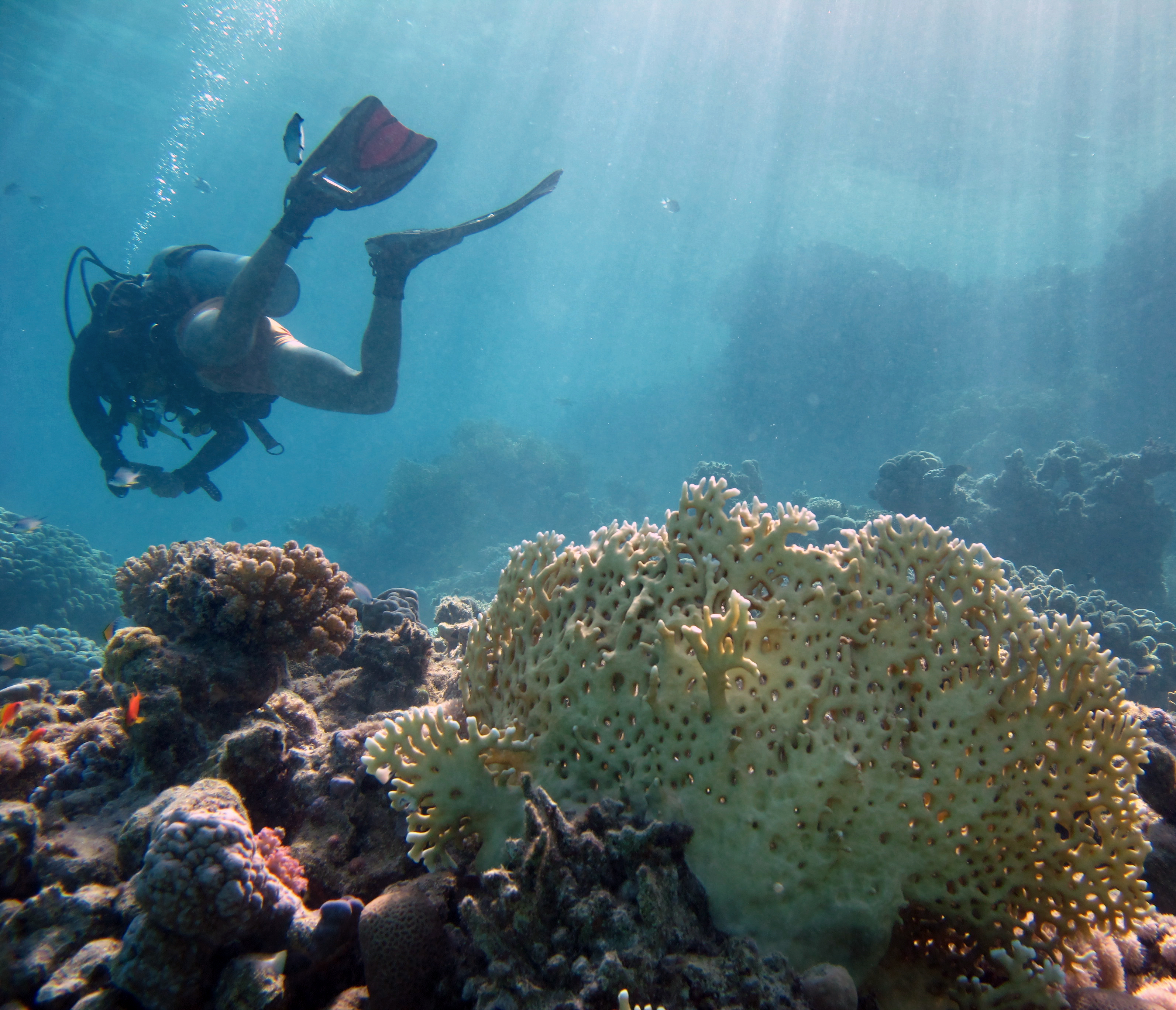 Coral - Red Sea, Marsa Alam, Egypt